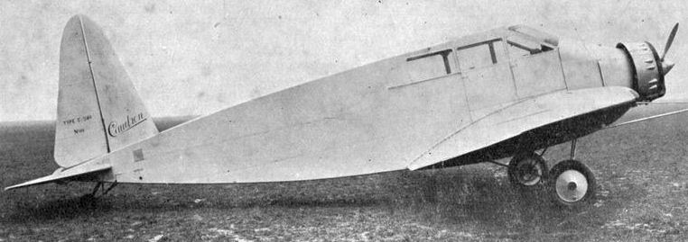 Caudron C.240 photo from L'Aerophile May 1932